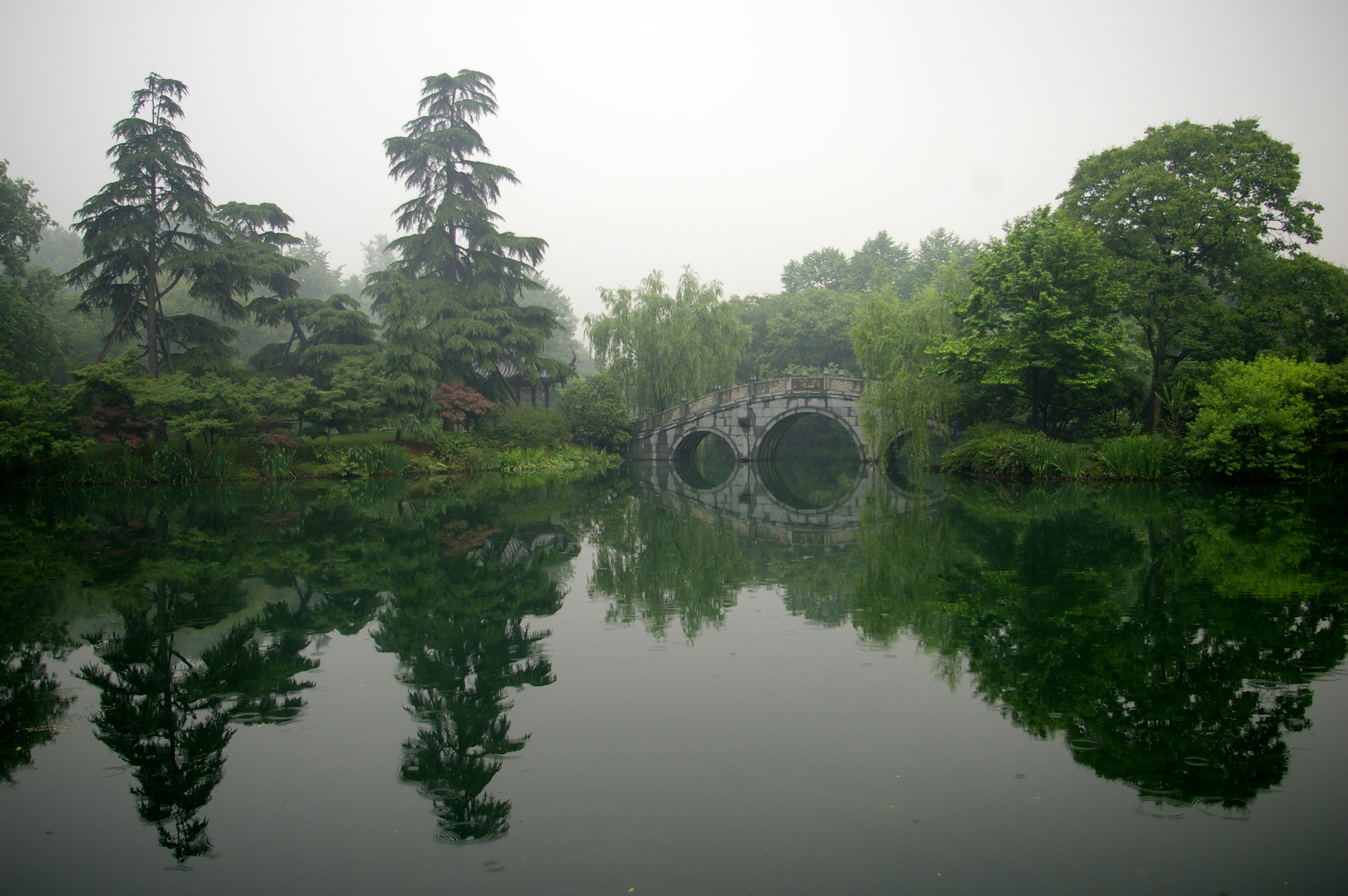 West Lake in Hangzhou